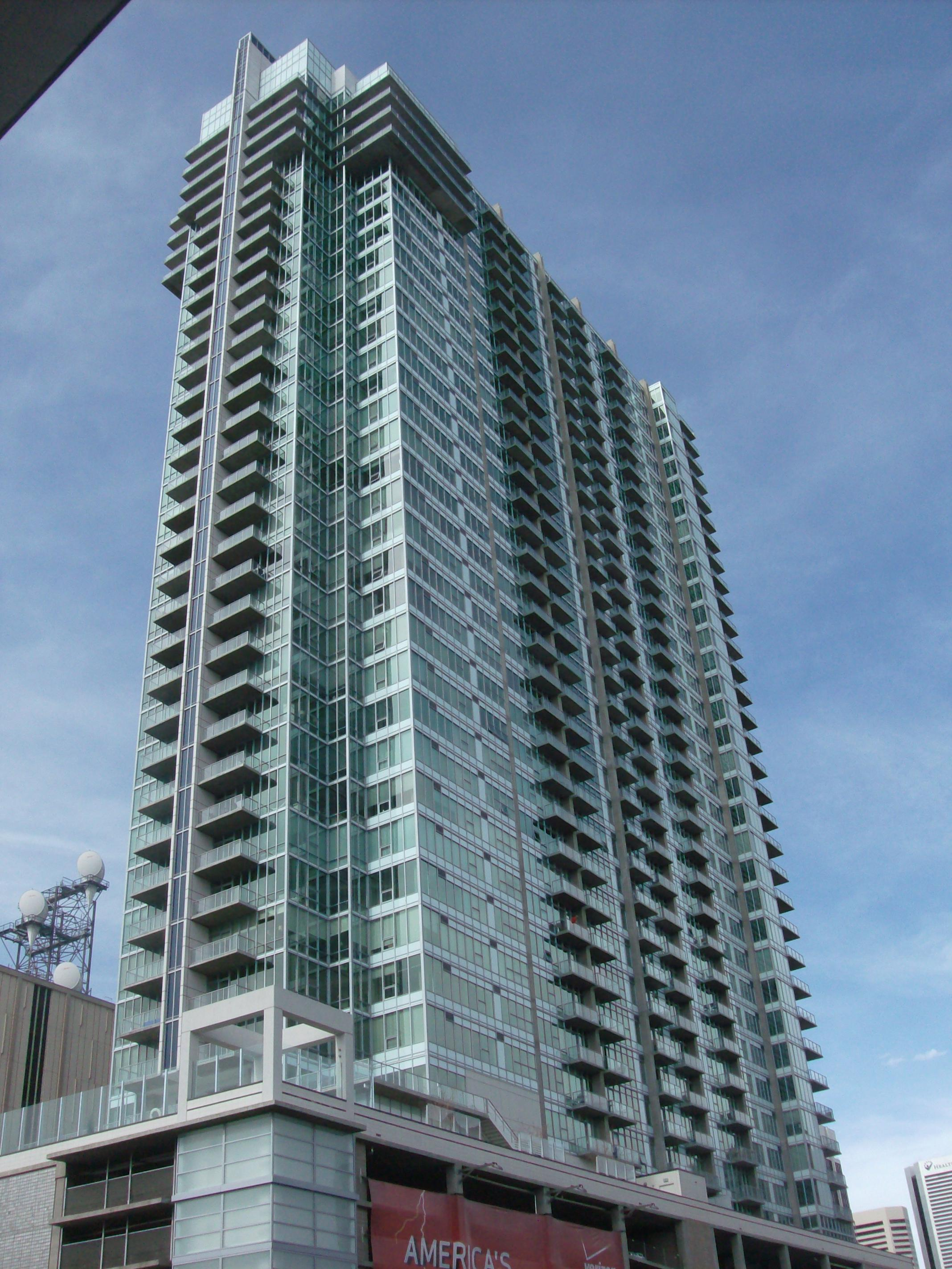 Spire, as seen from the Colorado Convention Center's 2nd floor deck.